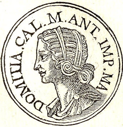 Domitia Lucilla Minor was a noble Roman woman who lived in the 2nd century. She is famous as the mother of the future emperor Marcus Aurelius, and also as the patron of another future emperor, Didius Julianus.